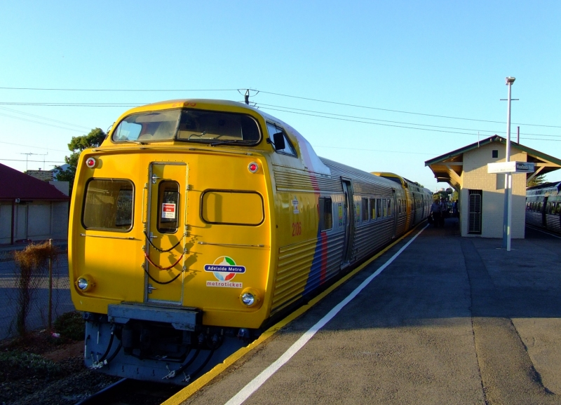 2000 Class Railcars at Woodlands Park Station. April 2007.